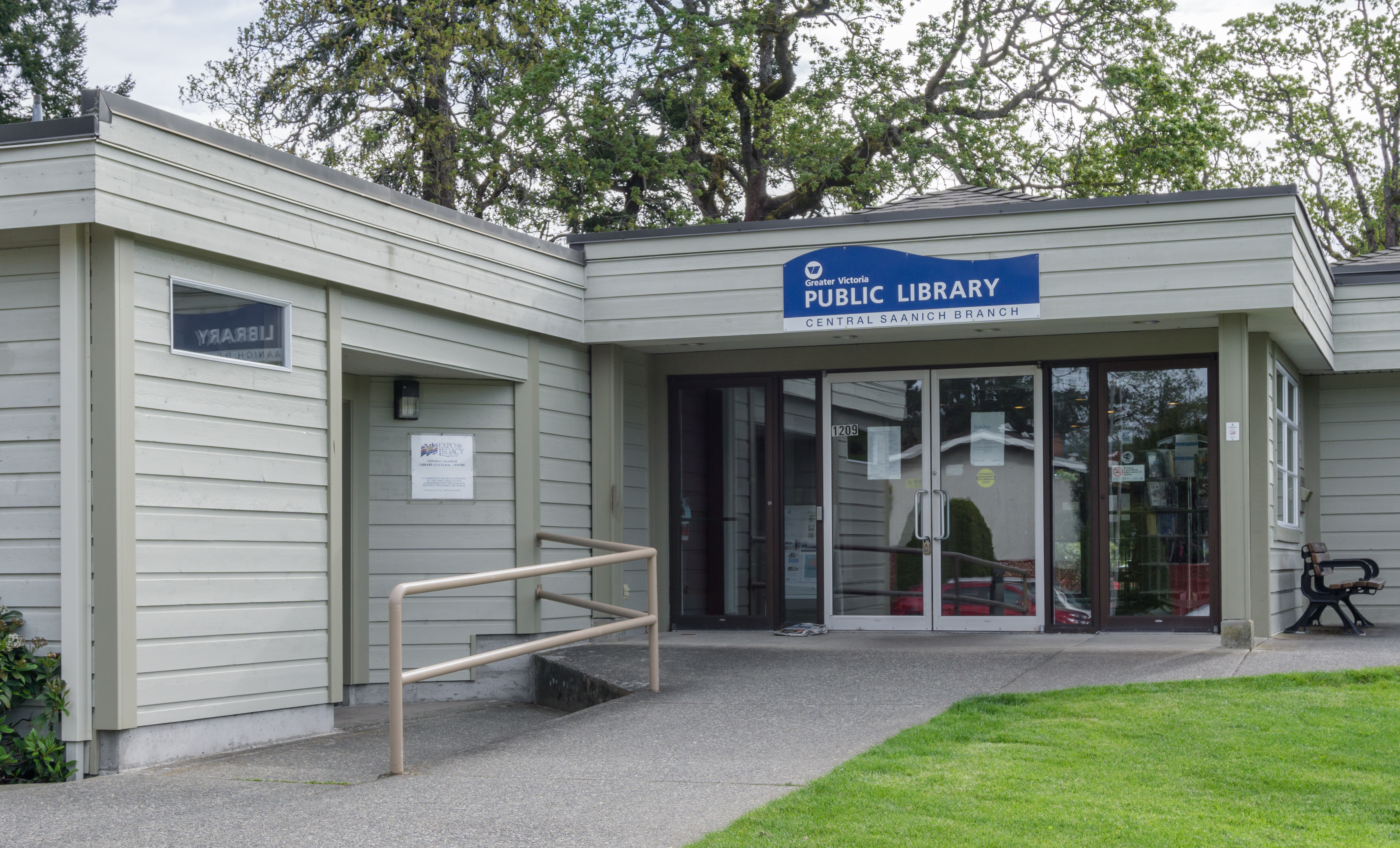 Library, Saanich, British Columbia, Canada